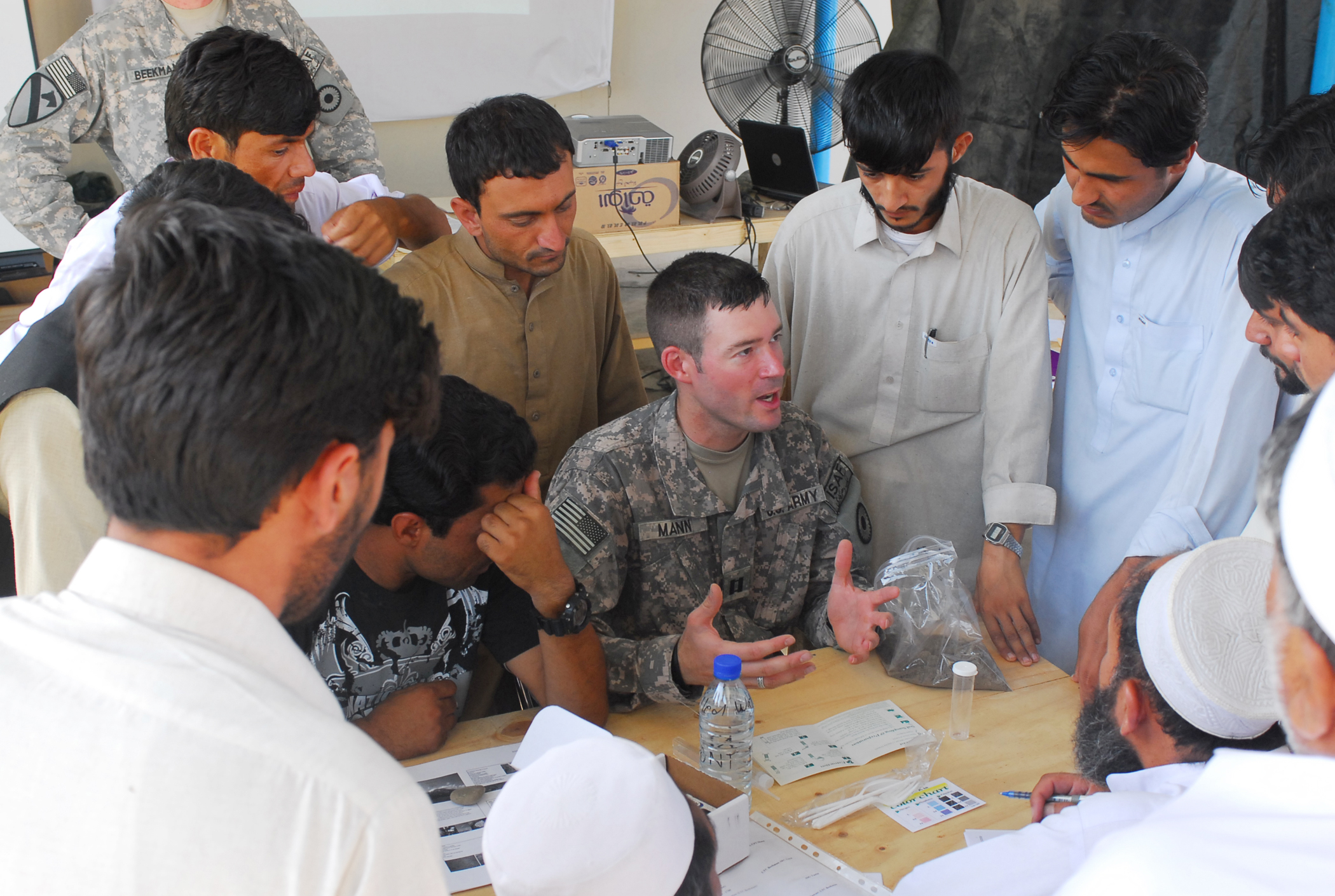 Capt. Jeffrey Mann shows students from Nangarhar University how to test for nutrients in soil samples during an agricultural development class on Forward Operating Base Mehtar Lam in Afghanistan's Laghman province, July 9, 2009. Mann is a Kansas National Guardsman with Task Force Mountain Warrior's agribusiness development team. See more at U.S. forces foster growth in Afghanistan